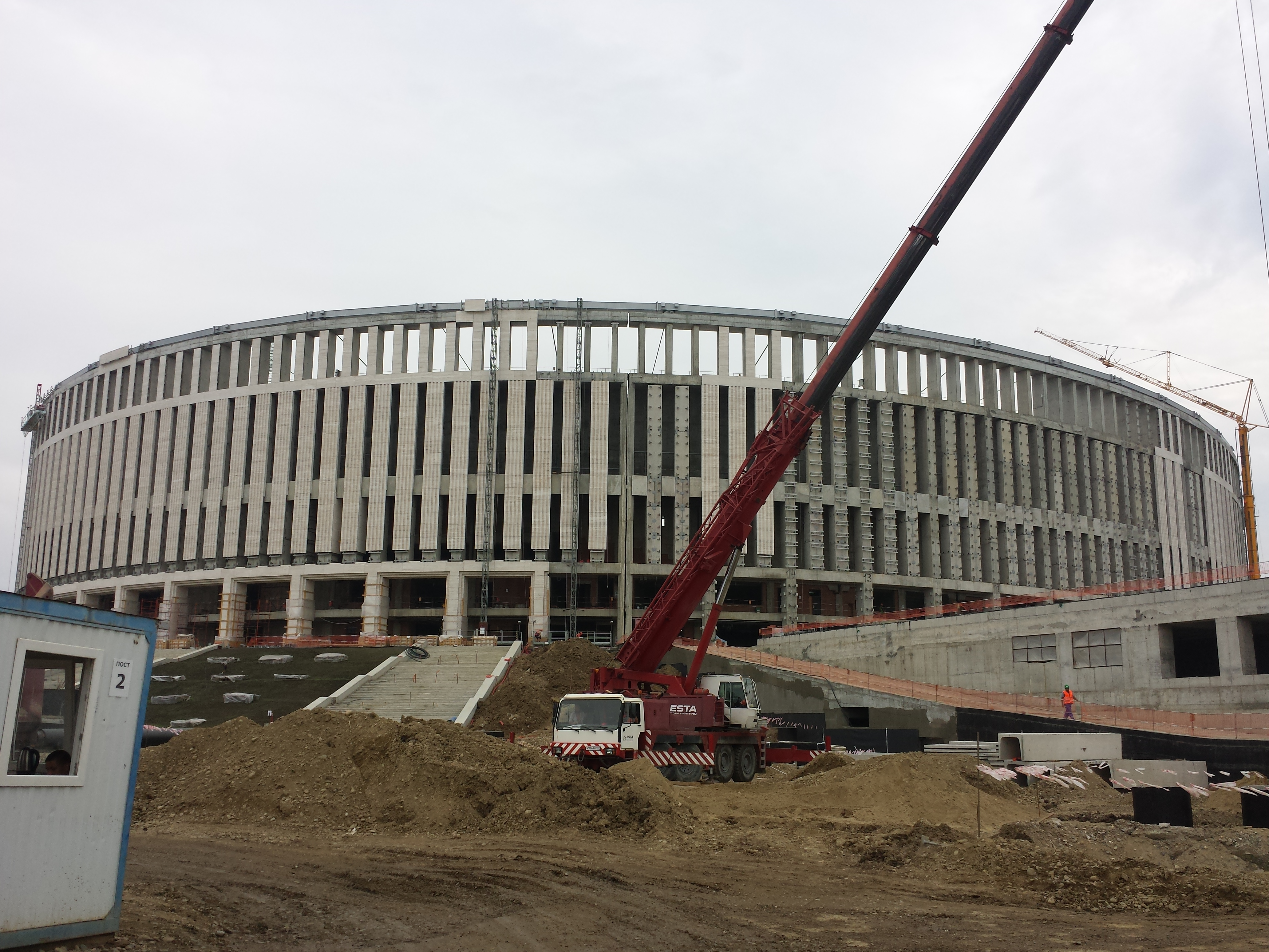 Krasnodar Stadium under construction on 2015-07-10